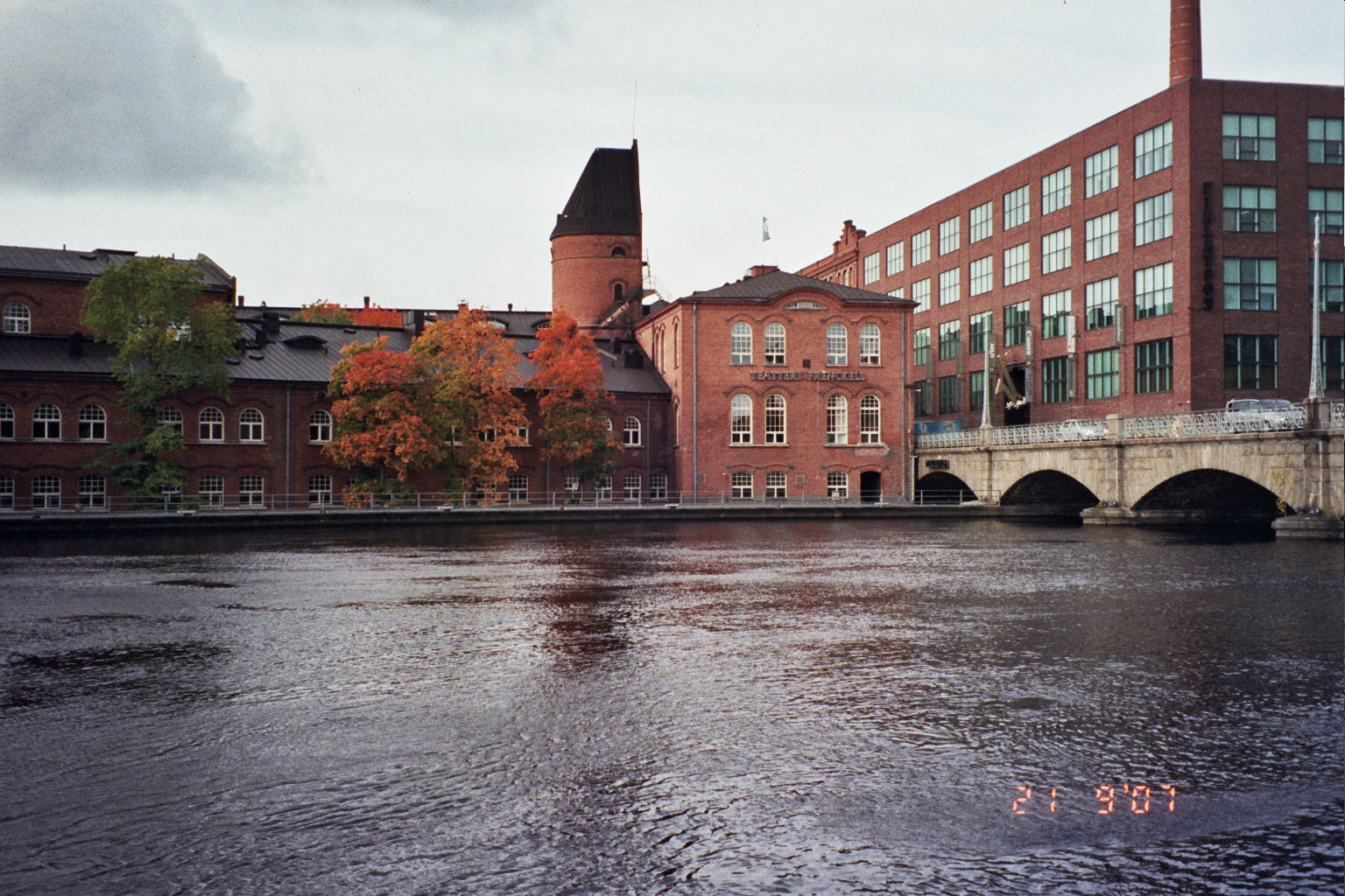 Former industrial buildings of the paper maker Frenckell (left) and the textile maker Finlayson on the shore of the Tammerkoski rapids in Tampere, Finland. Partially seen on the right is the Satakunnansilta bridge.